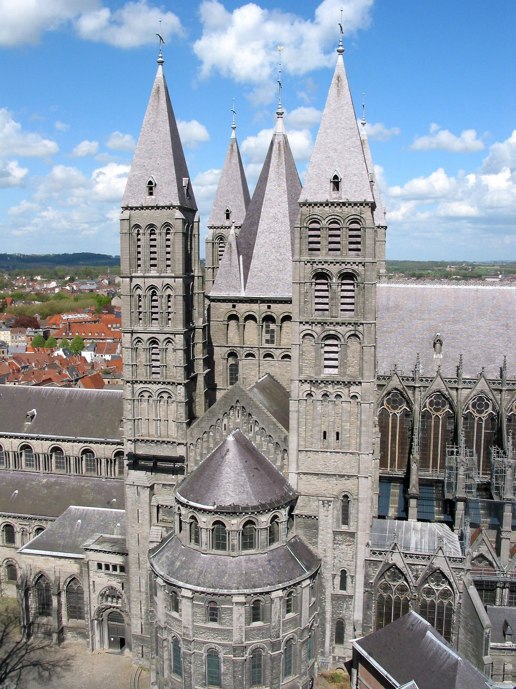 Tournai (Belgium), the five romanesque towers (XIIth century) of the Notre-Dame (Our Lady) cathedral. Walon: Tournè (Belgique), lès cink toûrs romanes (XIIin.me sièke) dol catédrâle Notrè-Dame.